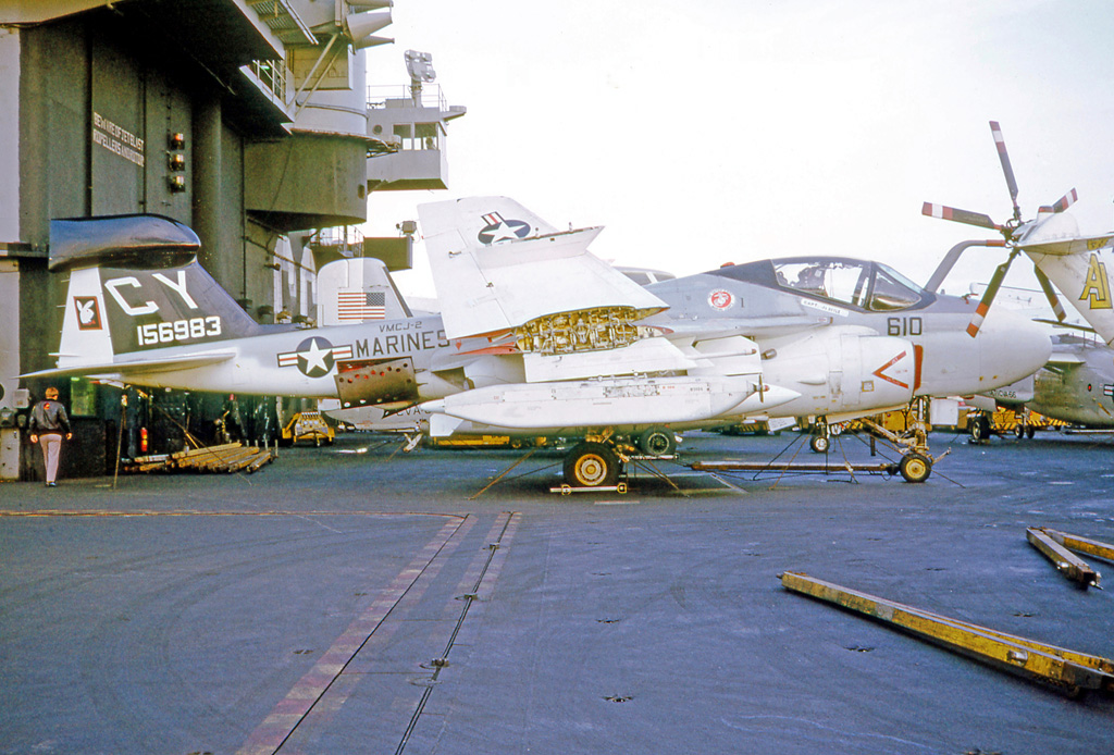 Grumman EA-6A Intruder 156983 of VMCJ-2 "Playboys" US Marine Corps aboard USS America CVA-66 in 1974